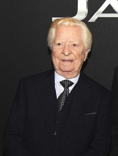 Former leading privateer entrant John Coombs at a Jaguar Cars promotional event in 2012.